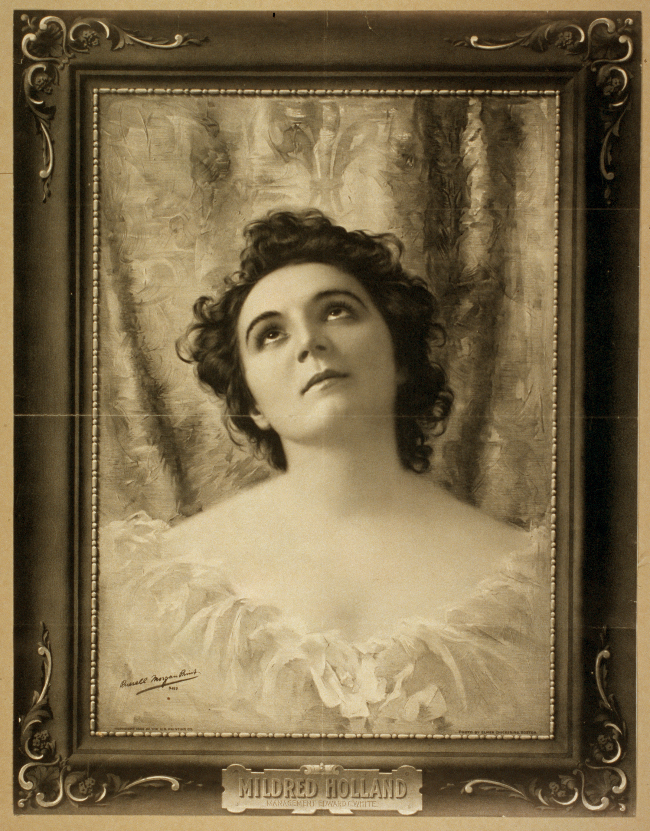 Photo of Mildred Holland by Elmer Chickering